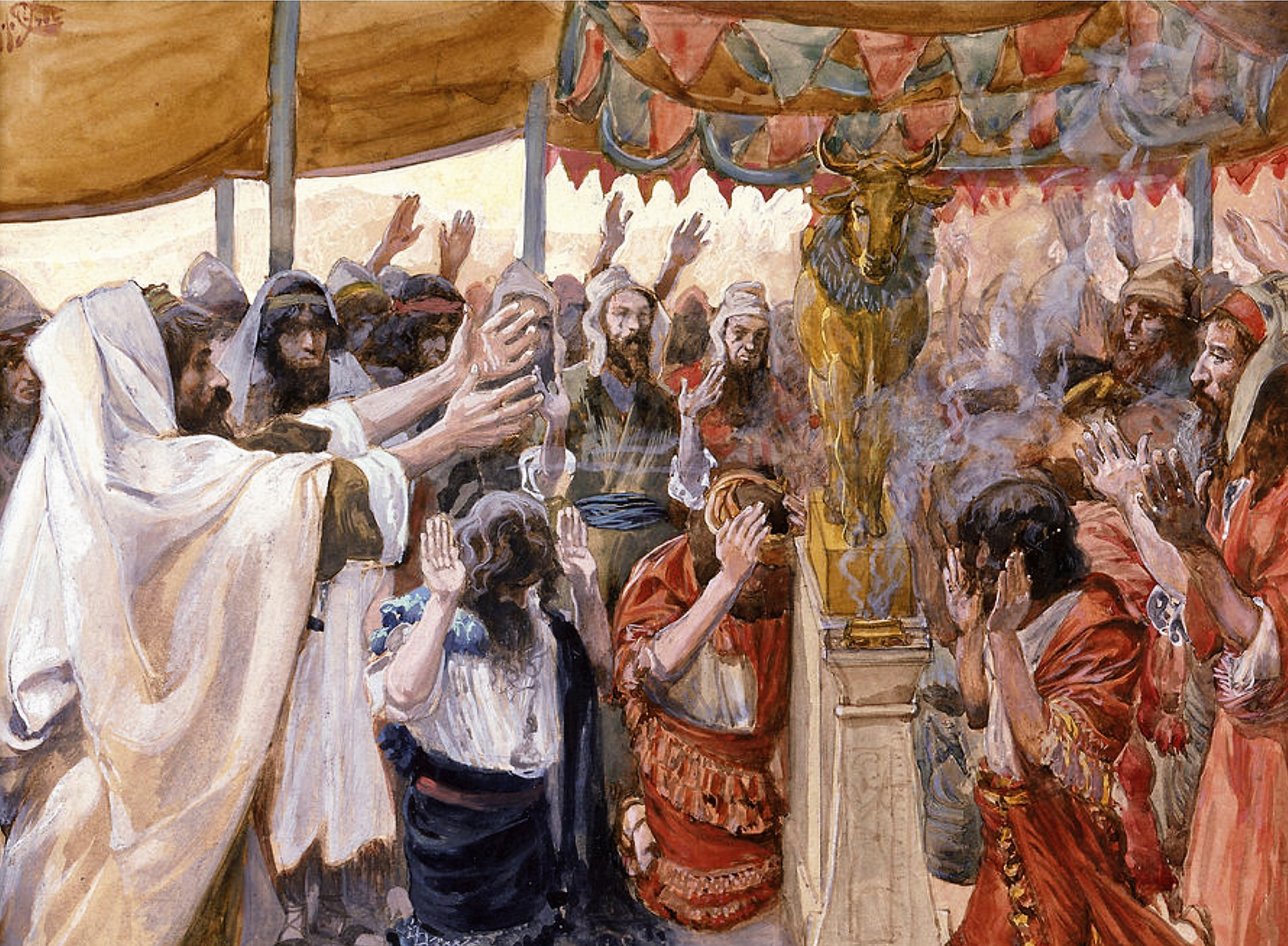 The Golden Calf, as in Exodus 32:4, by James Tissot